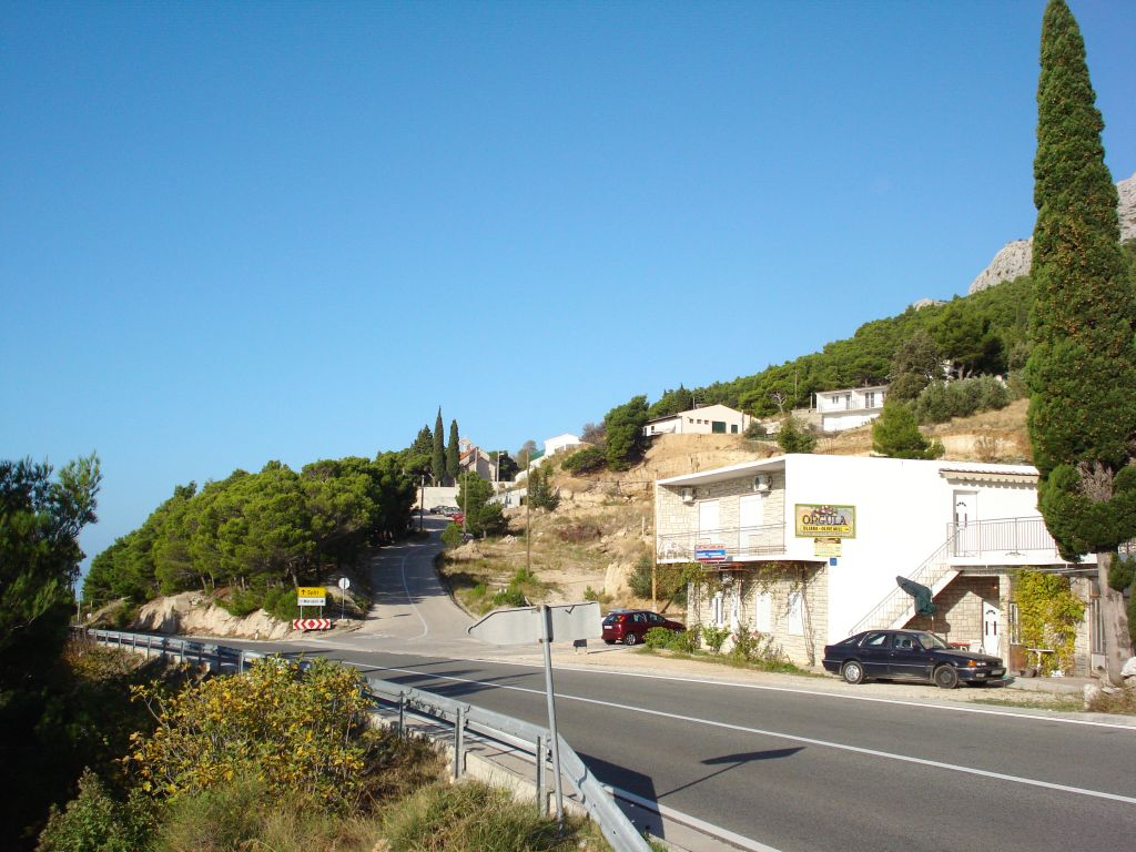 Marušići, near Omiš